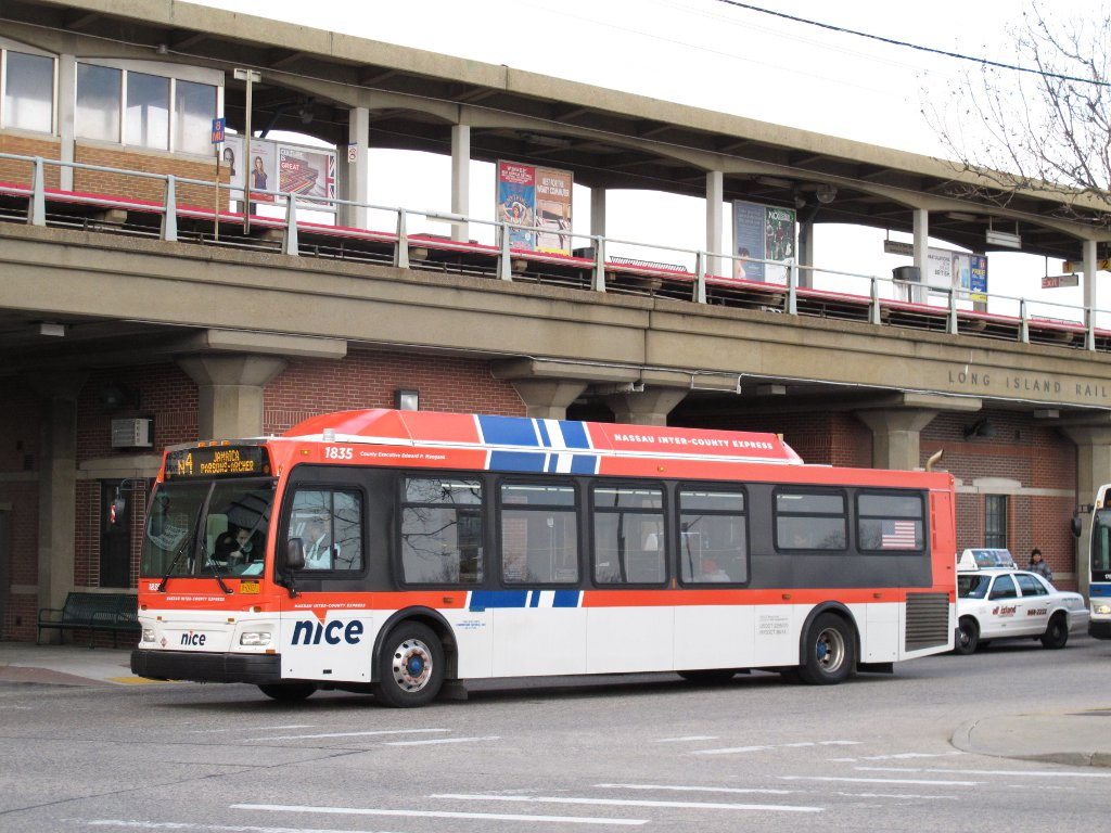 Nassau Inter-County Express #1835, wrapped in the new NICE livery departs the Freeport Railroad Station on the N4 route.